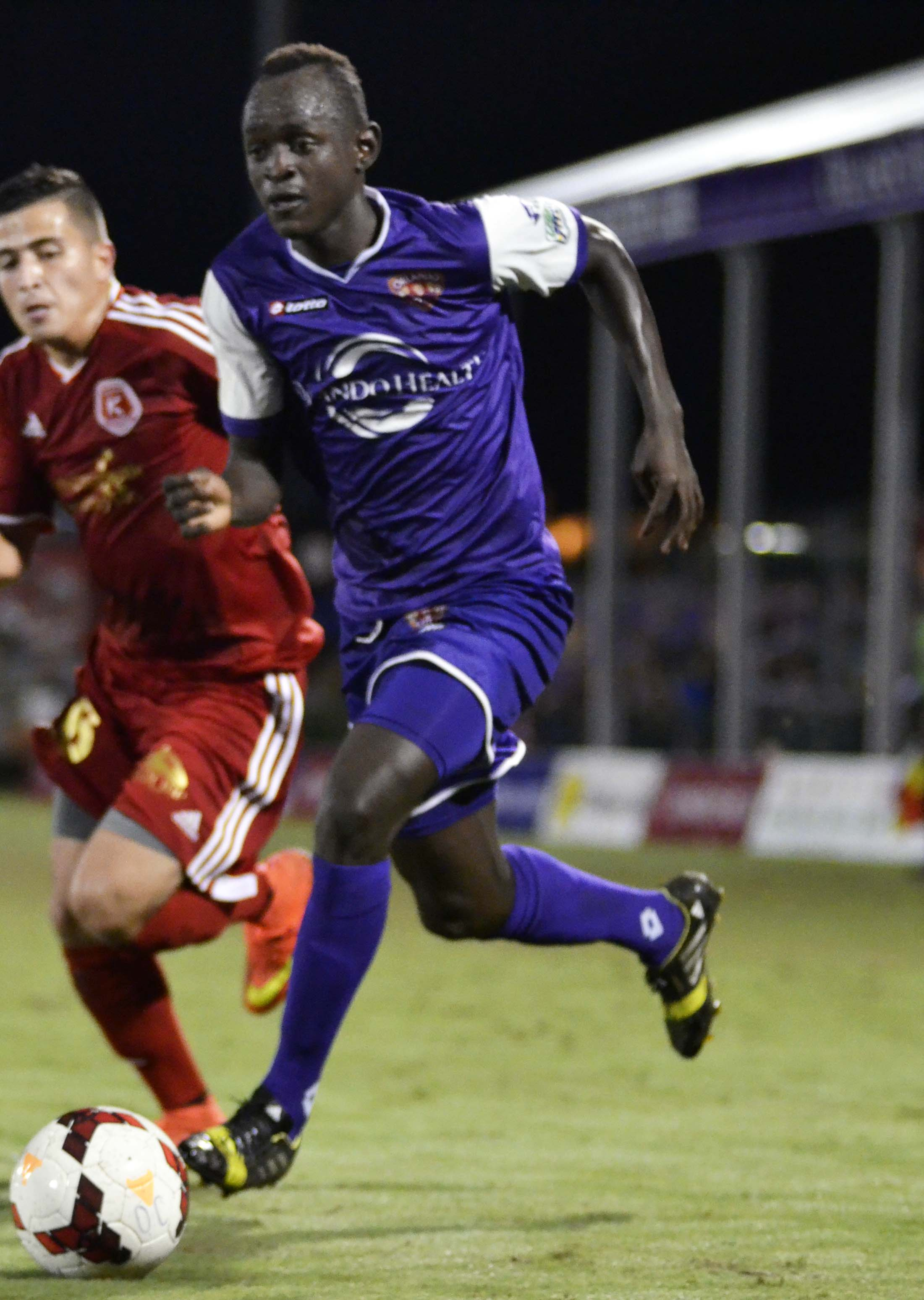 Adama Mbengue playing for Orlando City on 9-6-14 against the Richmond Kickers